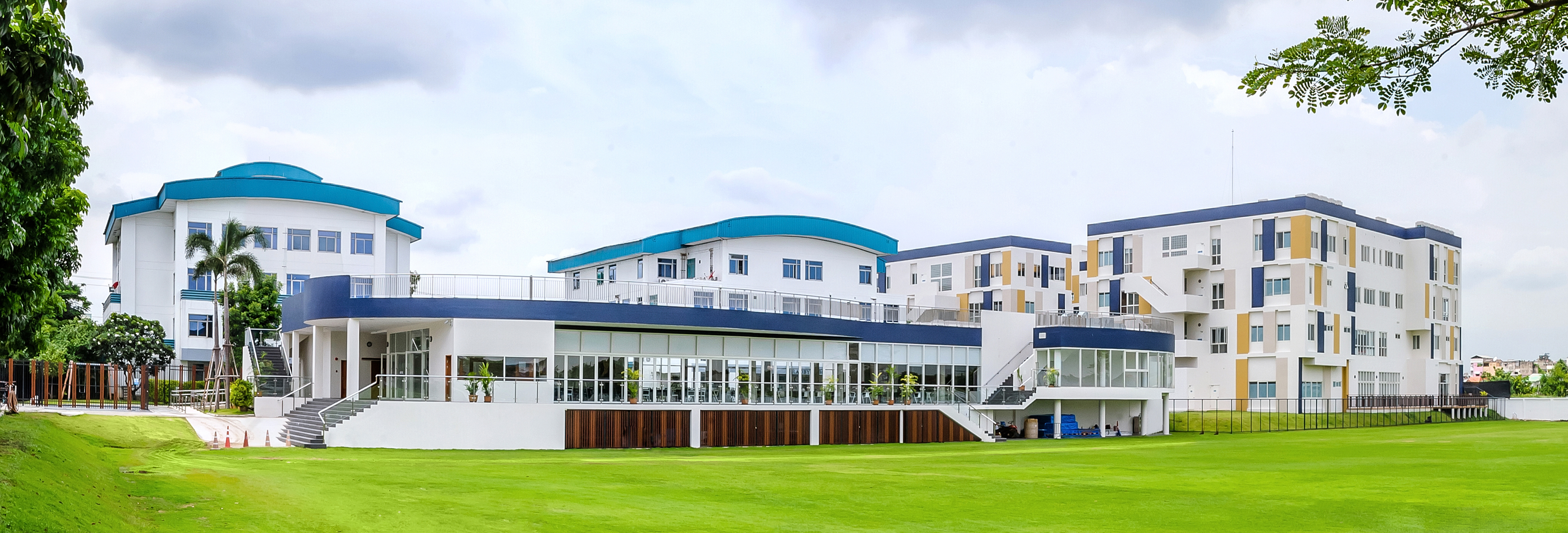 The Boarding Village. Boarding houses and The Hub recreational building